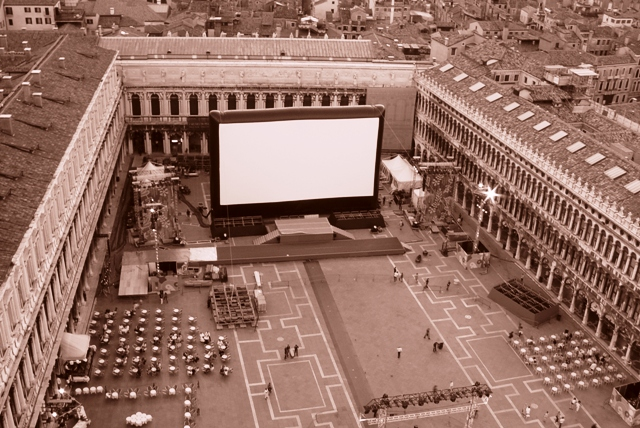 The premier of the Film "Shark Tale" at the St. Mark's Square